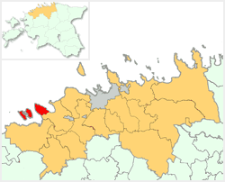 Location map of Paldiski town, Estonia. This image was created by Senzeichi.